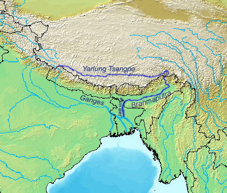 Map of the Brahmaputra/Yarlung Tsangpo river.